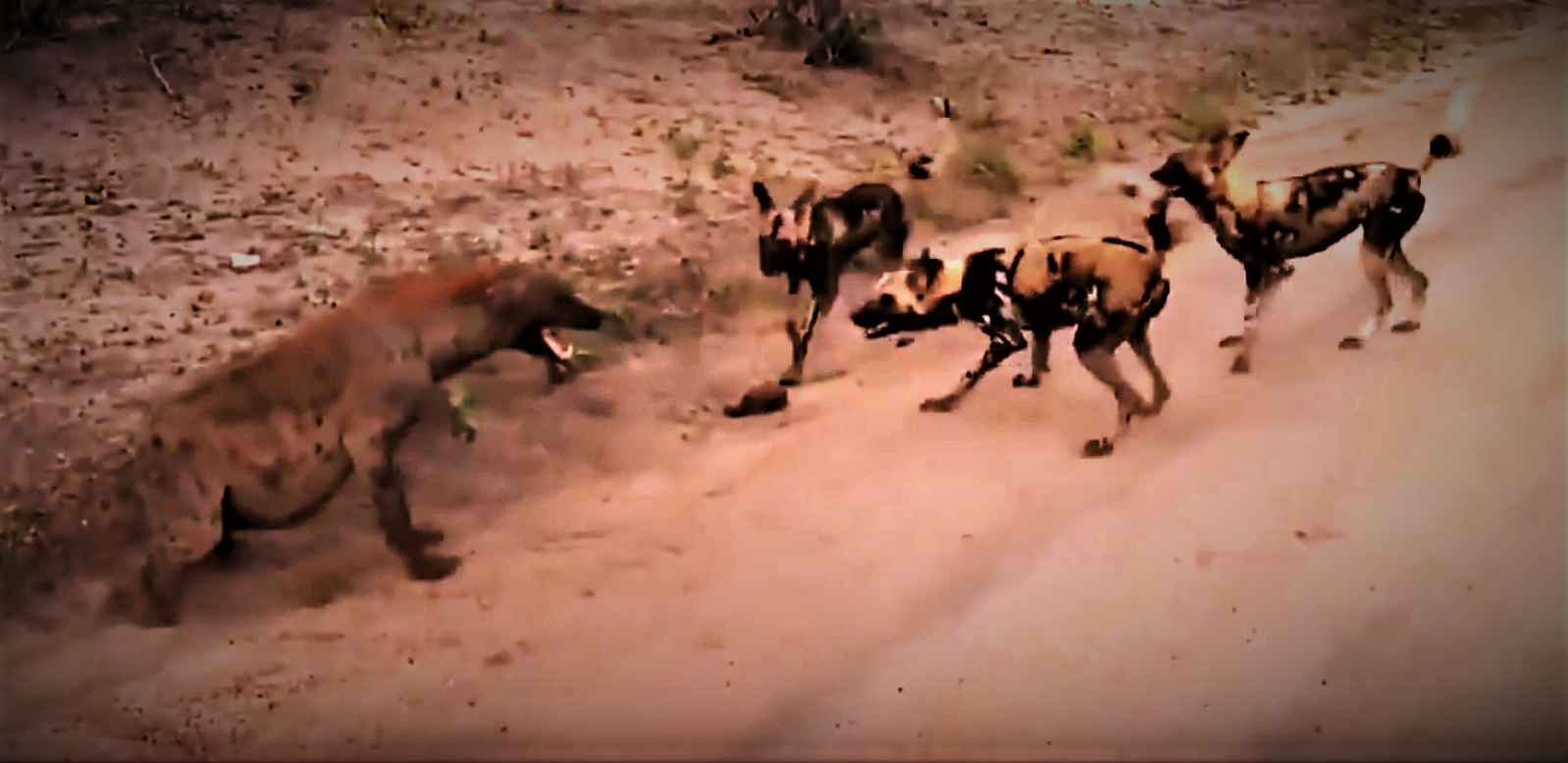 Spotted hyena confronts wild dogs, Sabi Sand Reserve